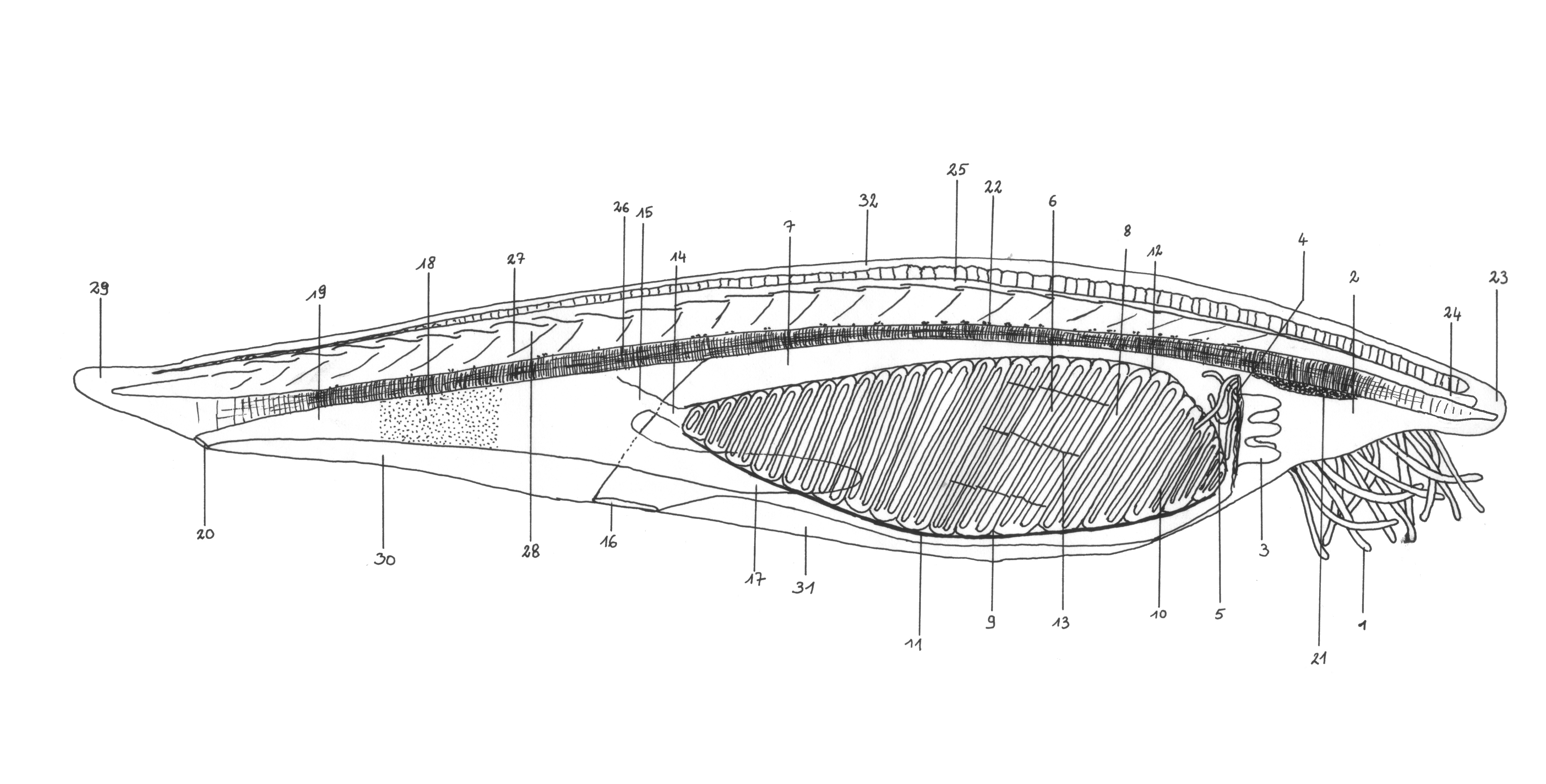 Annotated drawing of a lancelet buccal cirrus buccal cavity wheel organ velum velar tentacle pharynx atrium gill slit endostyle gill bar ventral aorta dorsal aorta branchial skeleton esophagus stomach atriopore hepatic cecum iliocolon intestine anus Hatschek's pit ocellus rostrum brain-like vesicle nerve cord notochord myoseptum myomere caudal fin ventral fin metapleural fold dorsal fin